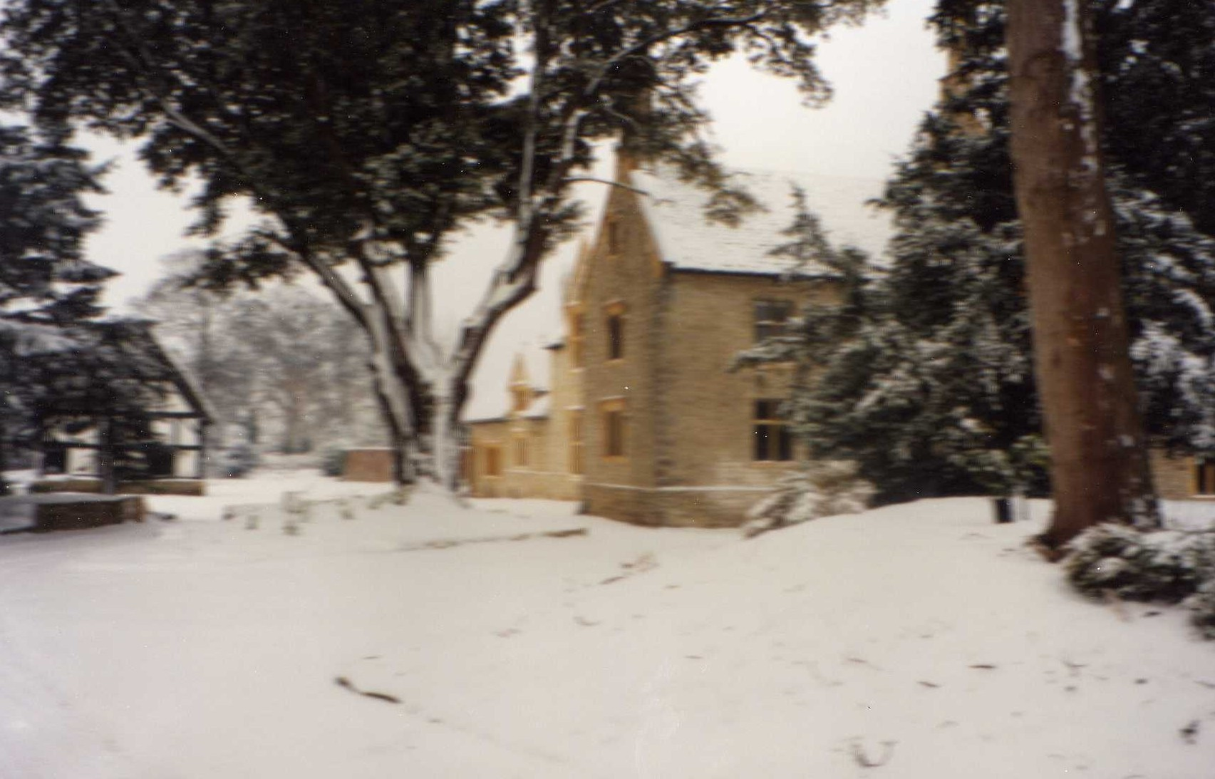 This is my own work